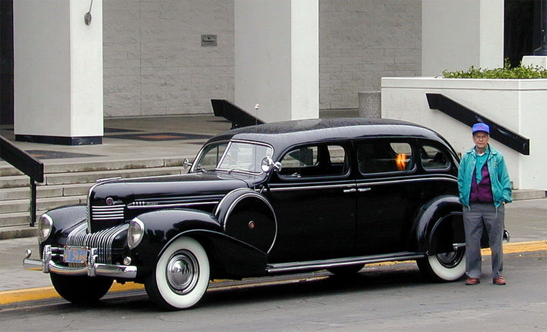 1939 C=24 Custom Imperial 7 passenger limousine